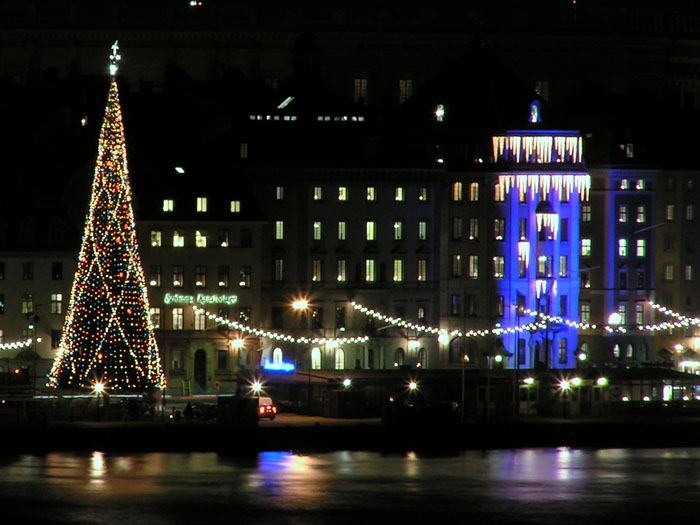 The Christmas tree in Stockholm old town that the media company MTG puts up every year.Christmas tree